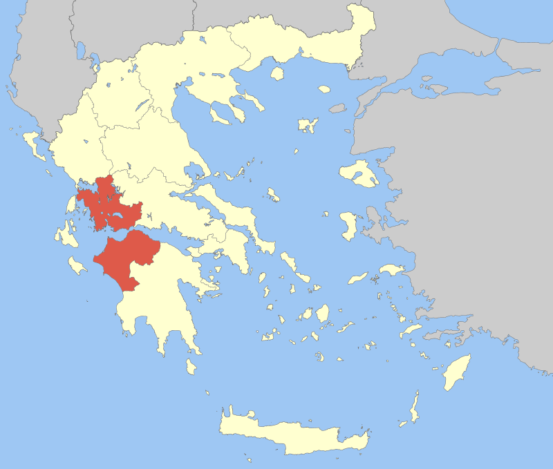 Locator Map of Western Greece Periphery, Greece